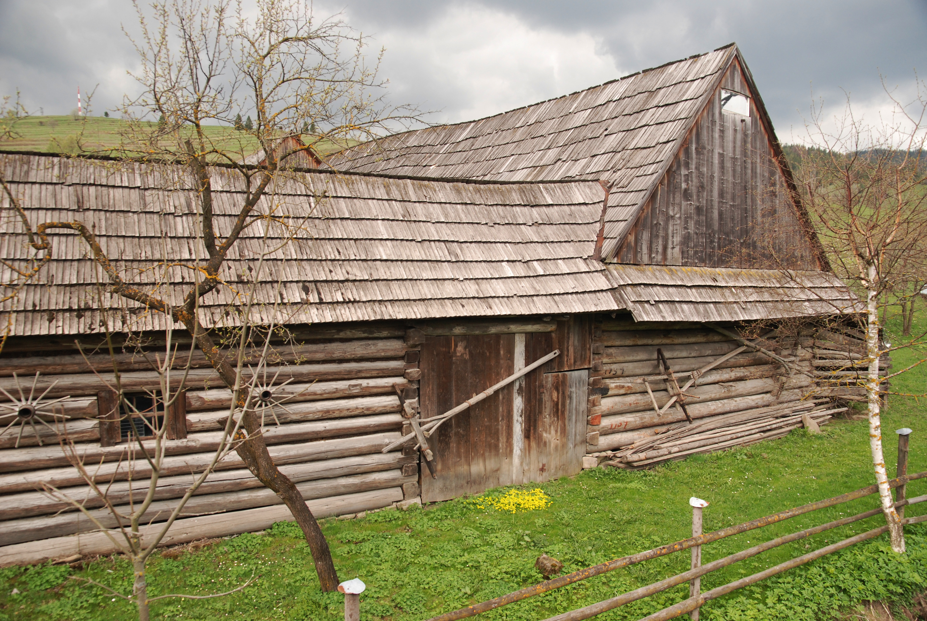 Old building in Osturňa, Slovakia